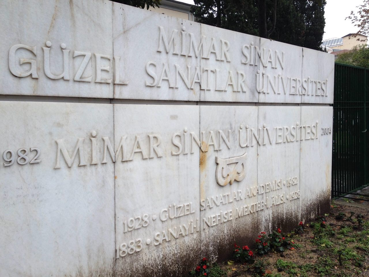 Marble wall at the entrance of "Mimar Sinan Fine Arts University", Istanbul, Turkey